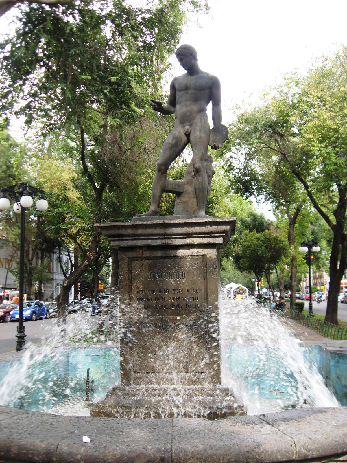 A copy of a Discophoros located on Calle Obregon in Colonia Roma in Mexico City. It claims to be a Myron copy.